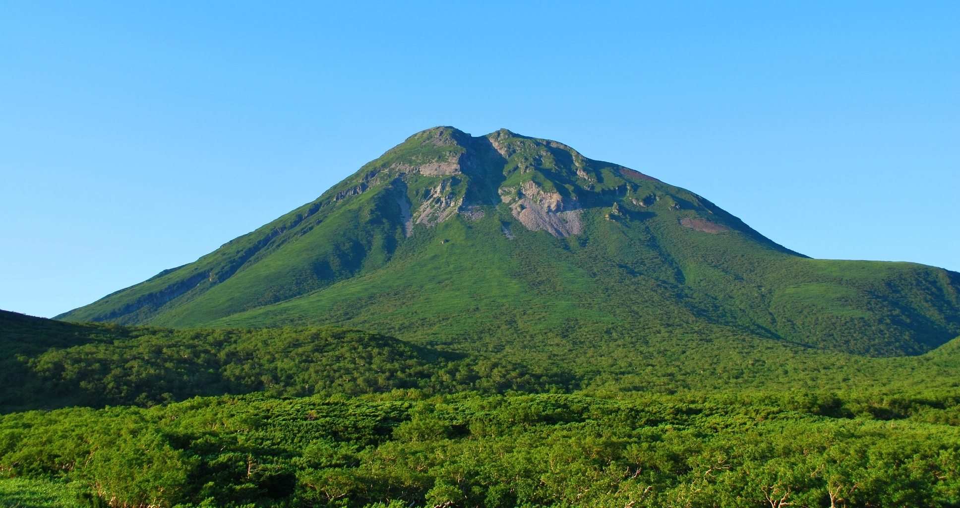 Rausu-dake from Shiretoko mountain pass view